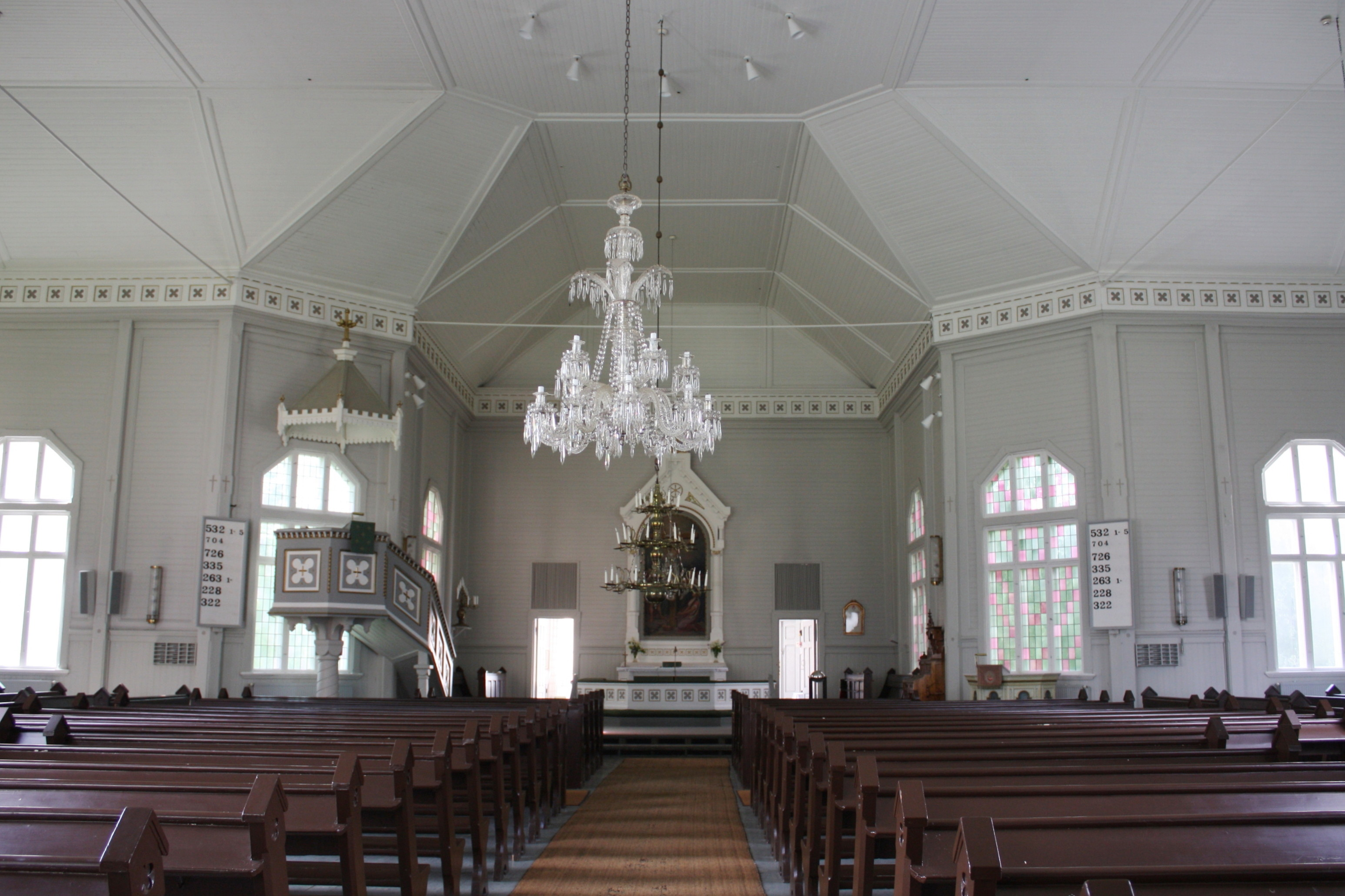 The interior of Multia Church in Multia, Finland, The wooden church was built in 1796 and renovated in 1900.